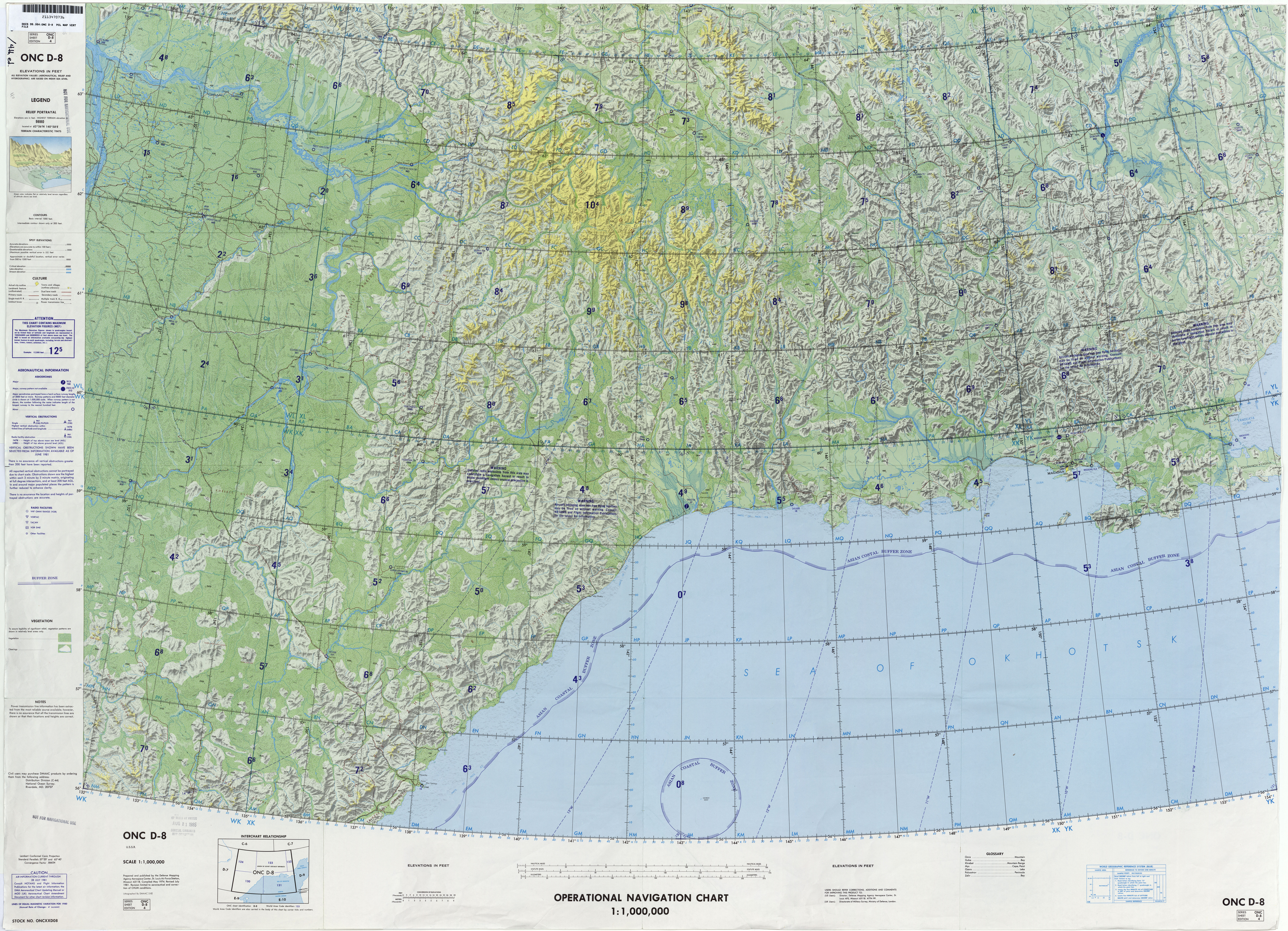 1:1,000,000 scale Operational Navigation Chart, Sheet D-8, 4th edition. Covers the U.S.S.R. Lambert Conformal Conic Projection.